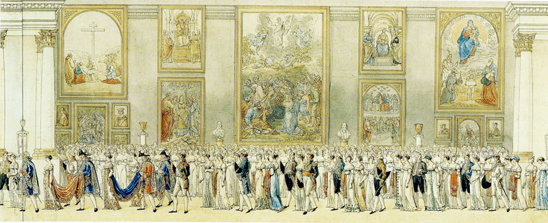 Detail of the Wedding Procession of Napoleon and Marie-Louise of Austria through the Grande Galerie, Louvre (1810) by Benjamin Zix. 172 x 24 cm; Pen, brown ink and brown wash; Musée du Louvre, Paris